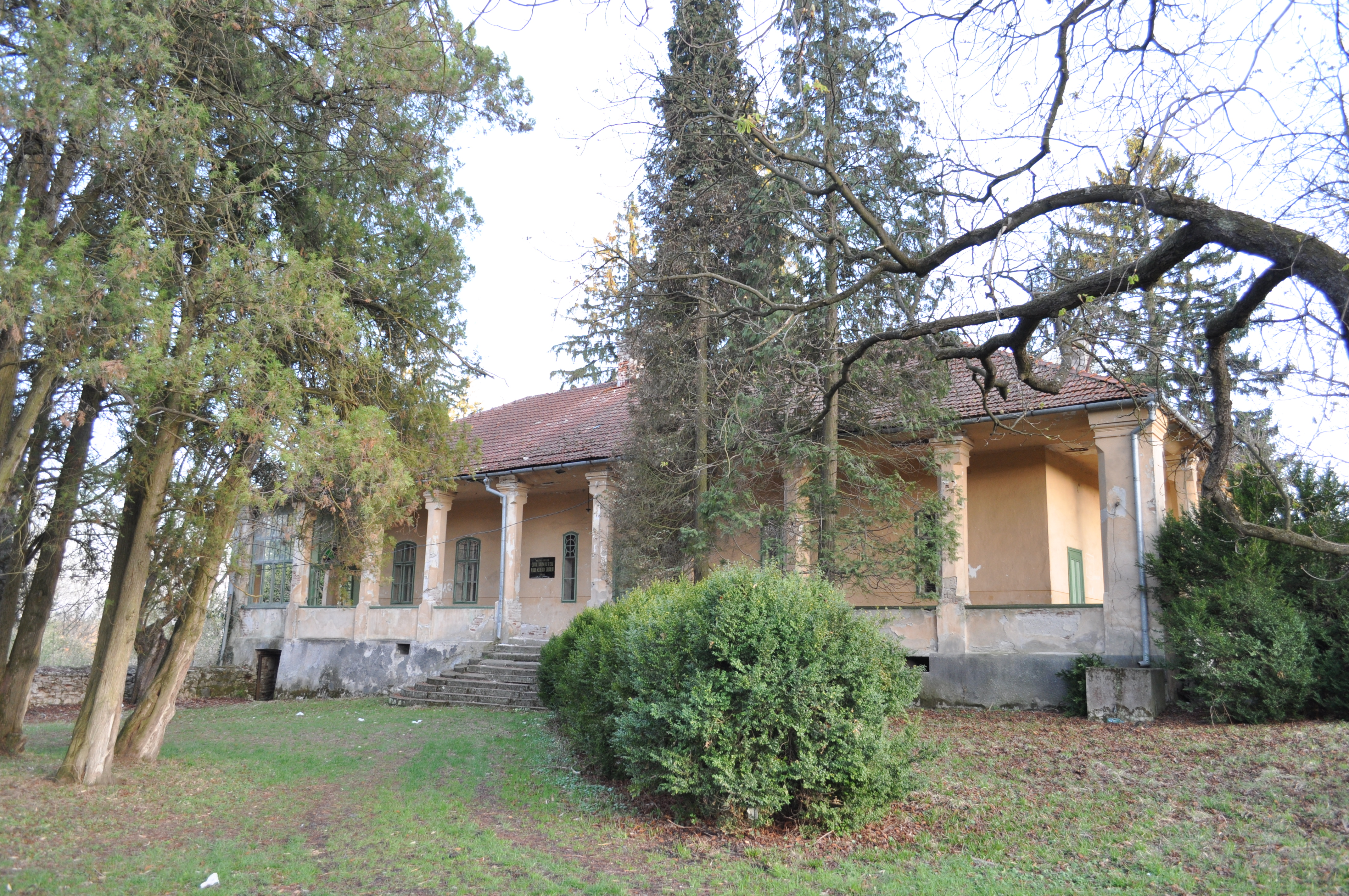 Klobosiski mansion and domain in Gurasada, Hunedoara county